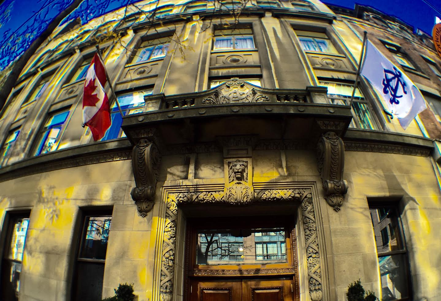 The Albany Club in Toronto, Ontario.